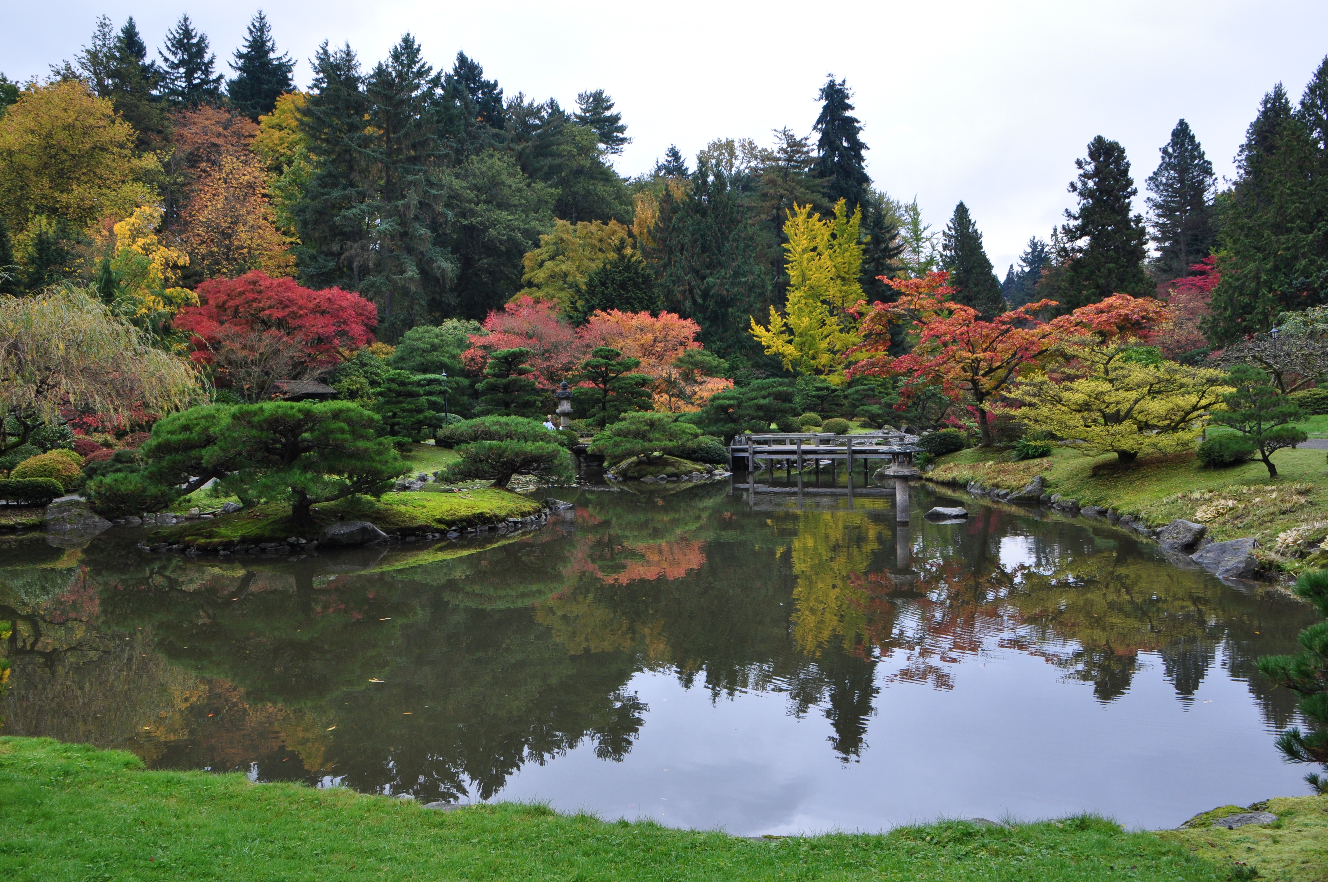 Seattle Japanese garden 2011-11-04